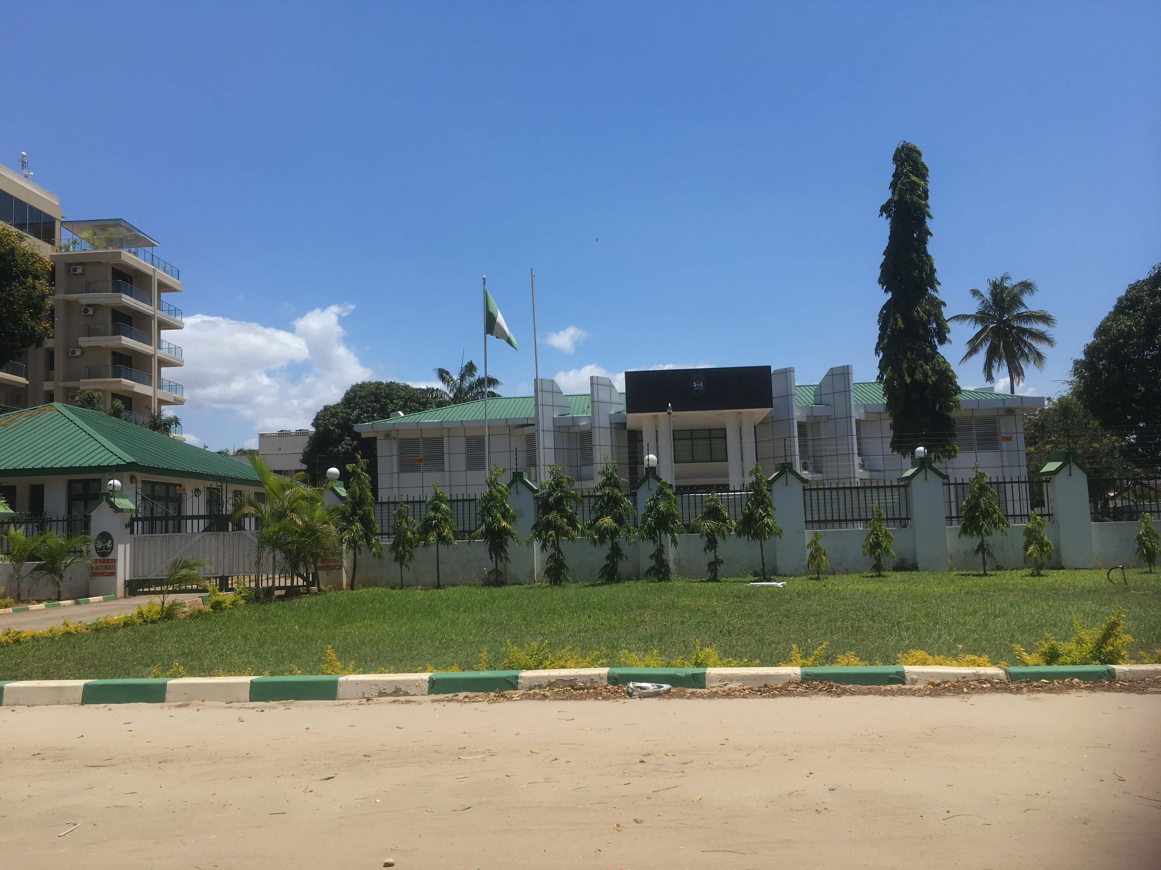 High Commission of Nigeria in Dar es Salaam.